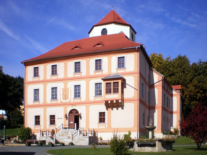 Castle Schönberg in Saxony, Germany